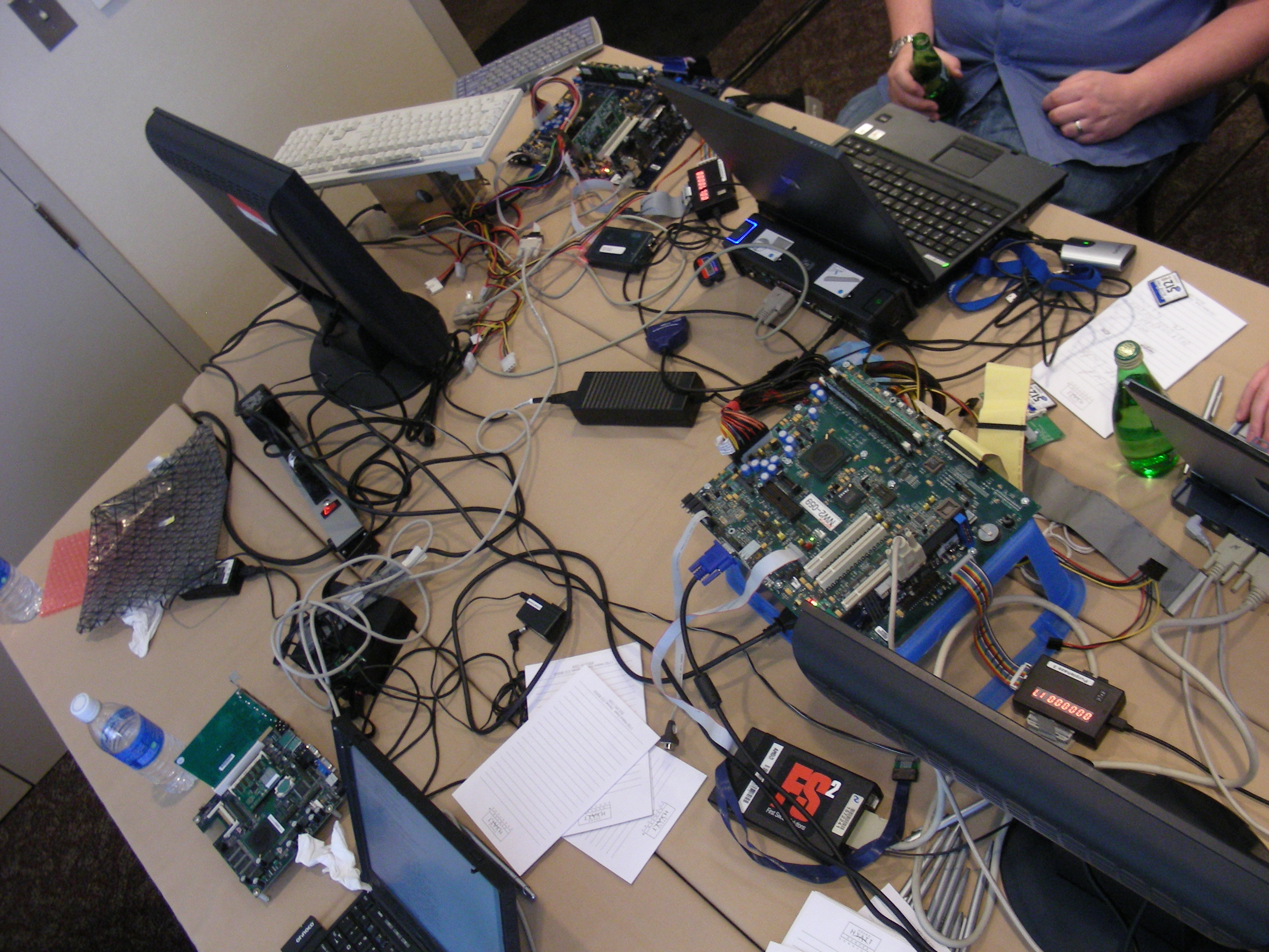 Hacking Coreboot (previously LinuxBIOS) at Denver 2008 summit